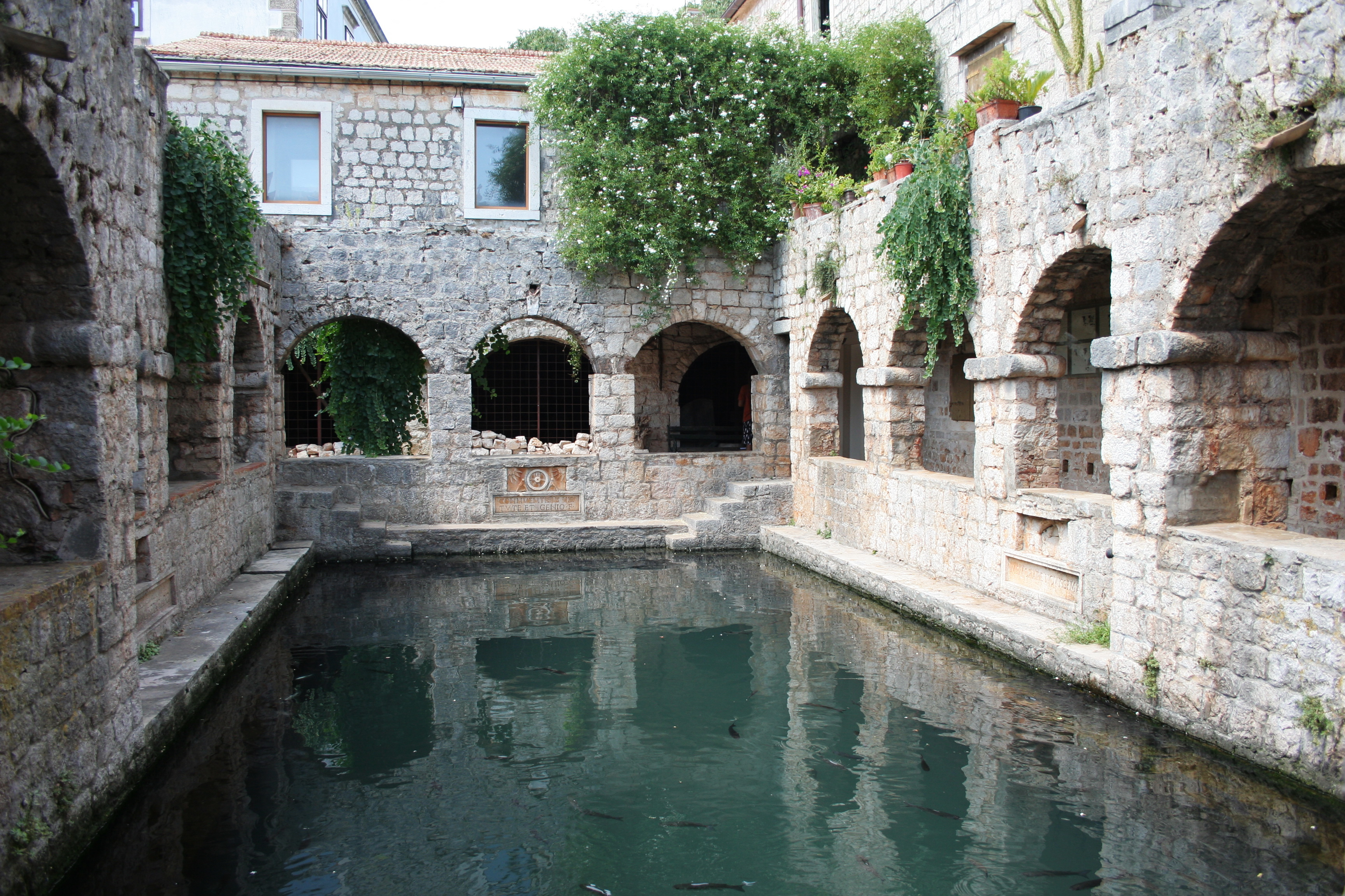 Fishpond in Tvrdalj